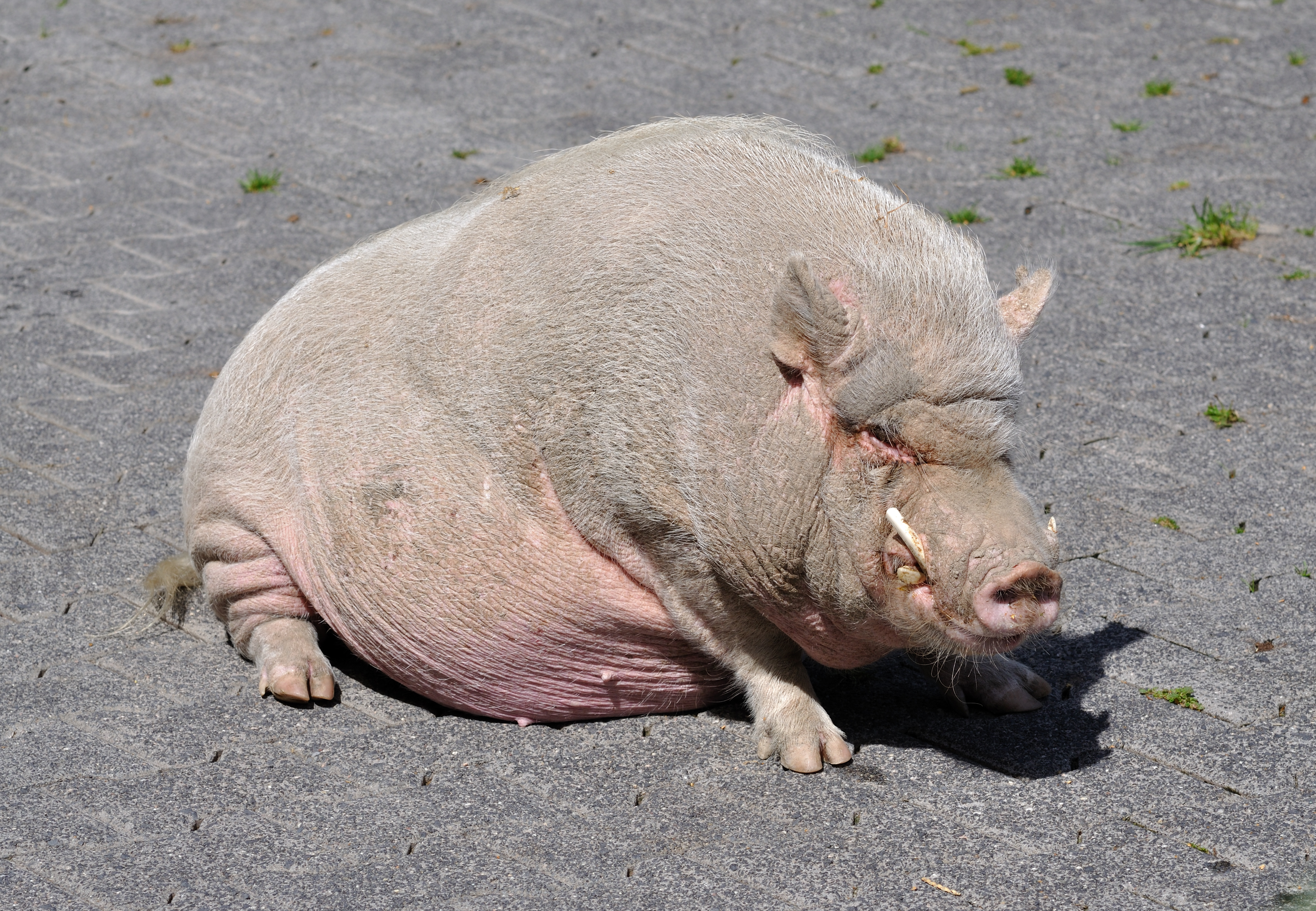 Male Miniature pig (Sus scrofa domesticus) in the Opelzoo, Kronberg/Königstein, Germany.